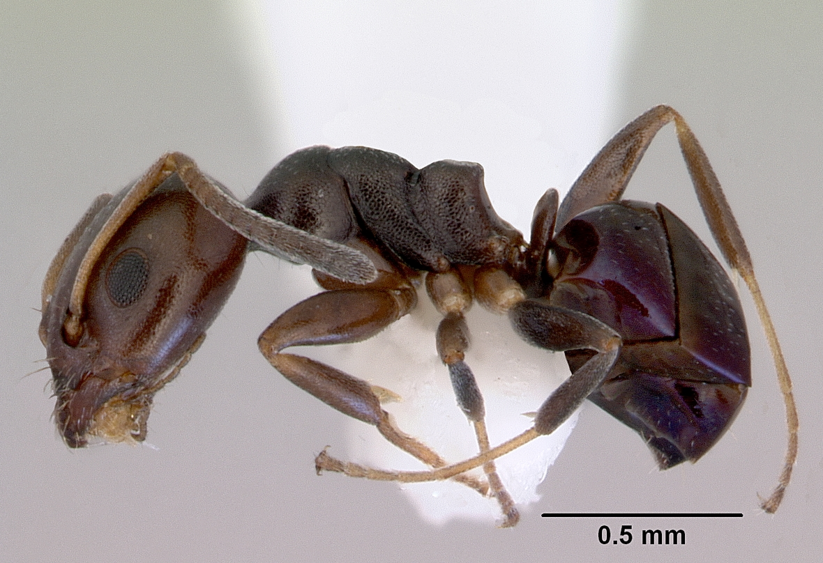 Profile view of ant Ochetellus glaber specimen casent0172342.